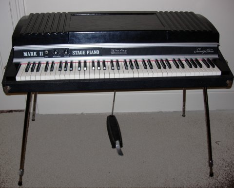 Rhodes Piano Mark II 73